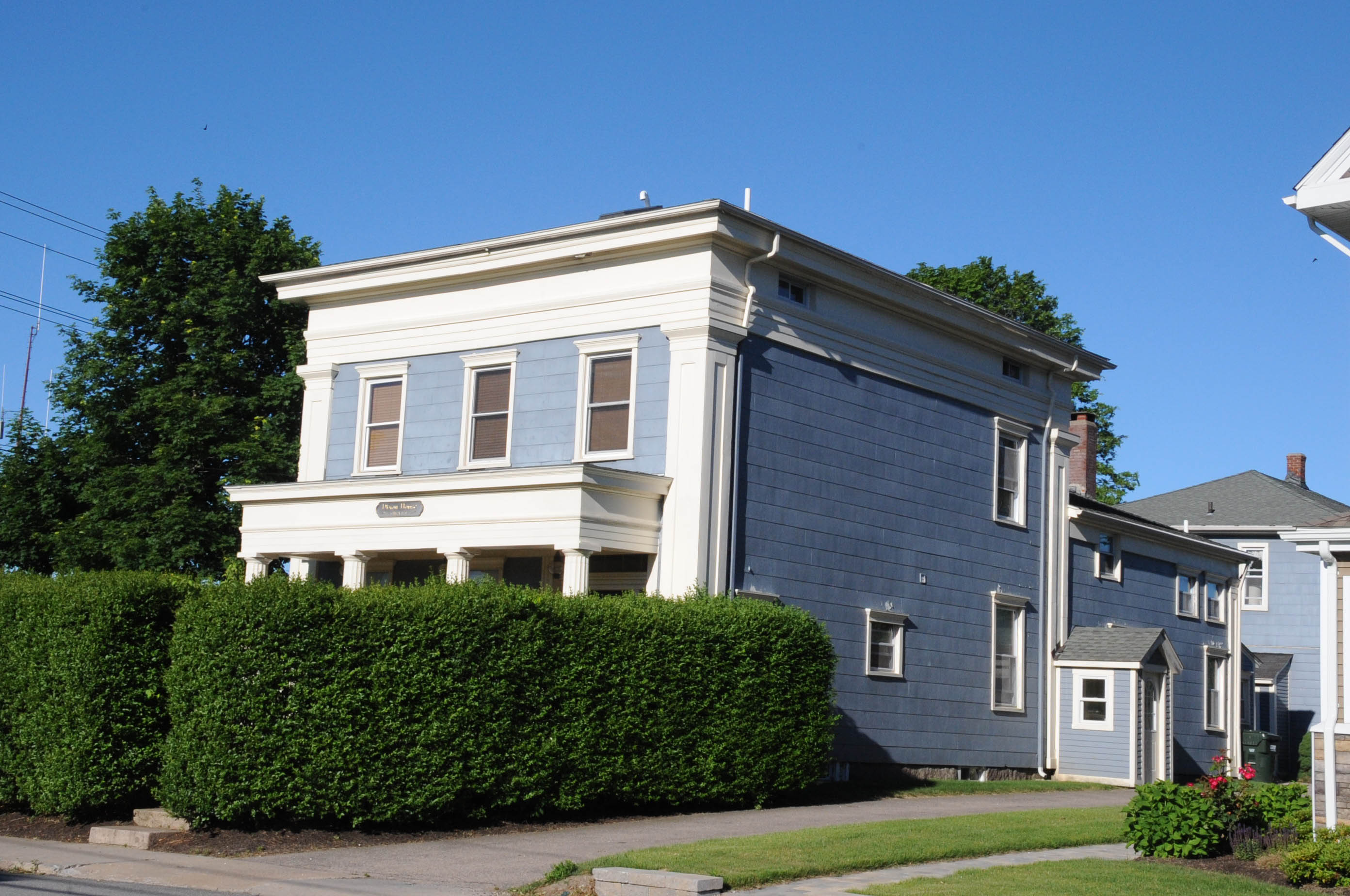 RESIDENTIAL DISTRICT BUILT BETWEEN 1832 AND 1955; NATHAN P. DIXON HOUSE CIRCA 1832 AND MOVED TO THIS SITE IN 1912. OLDEST HOUSE IN THE DISTRICT; DIXON WAS A LAWYER